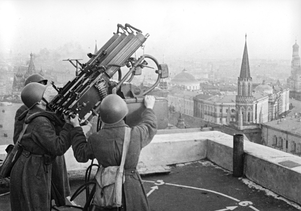 “Defense of Moscow”. Anti-aircraft gunners on the roof of Moscow's central Hotel "Moskva". The Great Patriotic War (1941-1945). Reprophoto.